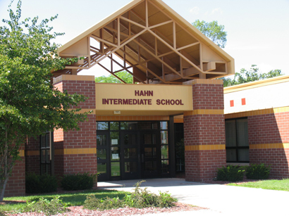 Hahn Intermediate School Davison Michigan